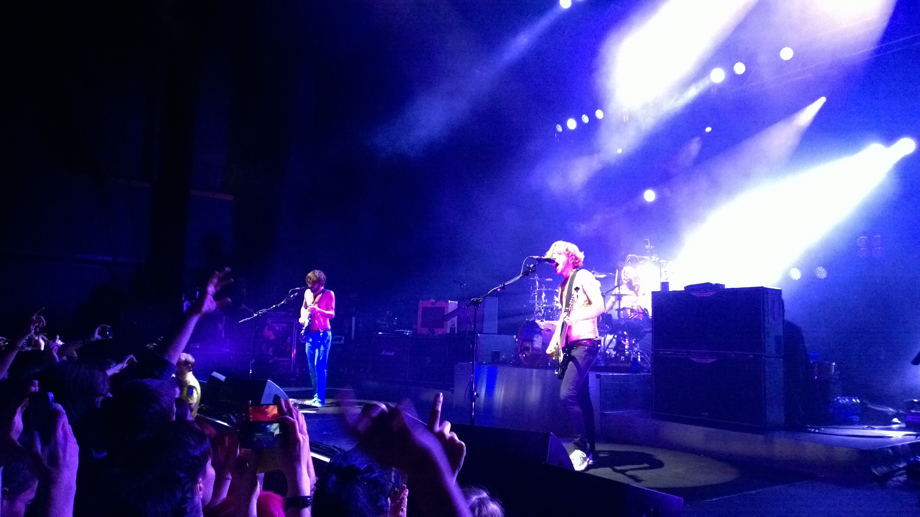 Biffy Clyro, G-Live, Guildford